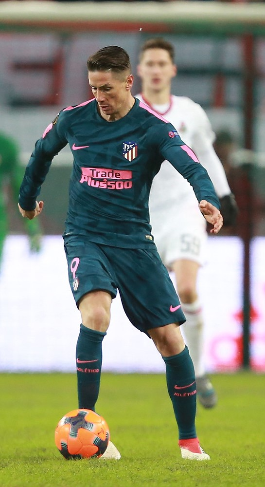 Fernando Torres